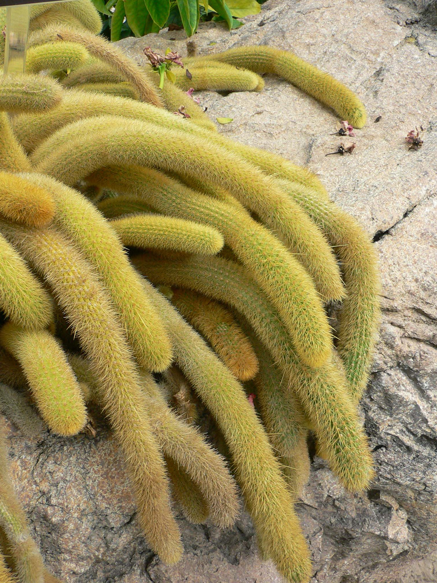 Pictures taken by myself at the United States National Botanical Garden, Washington DC, May 12, 2007.